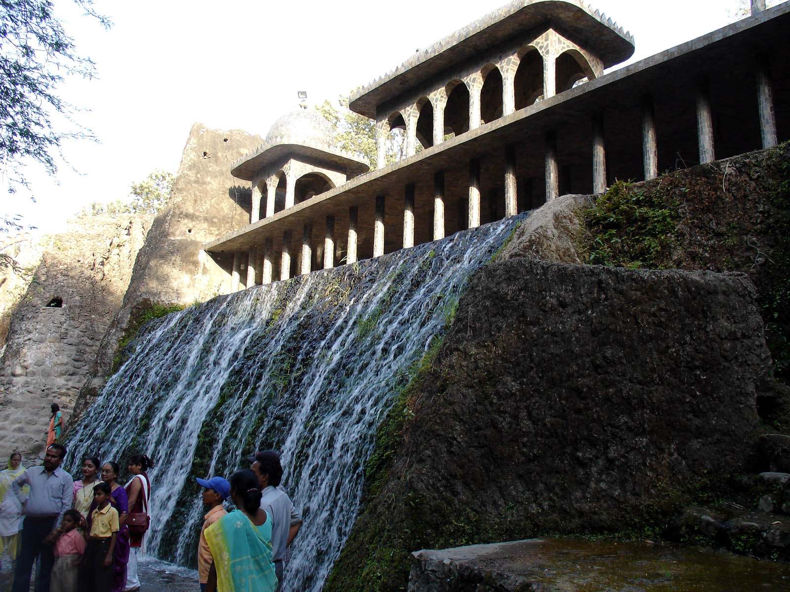 Waterfalls in Rock garden of Chandighar